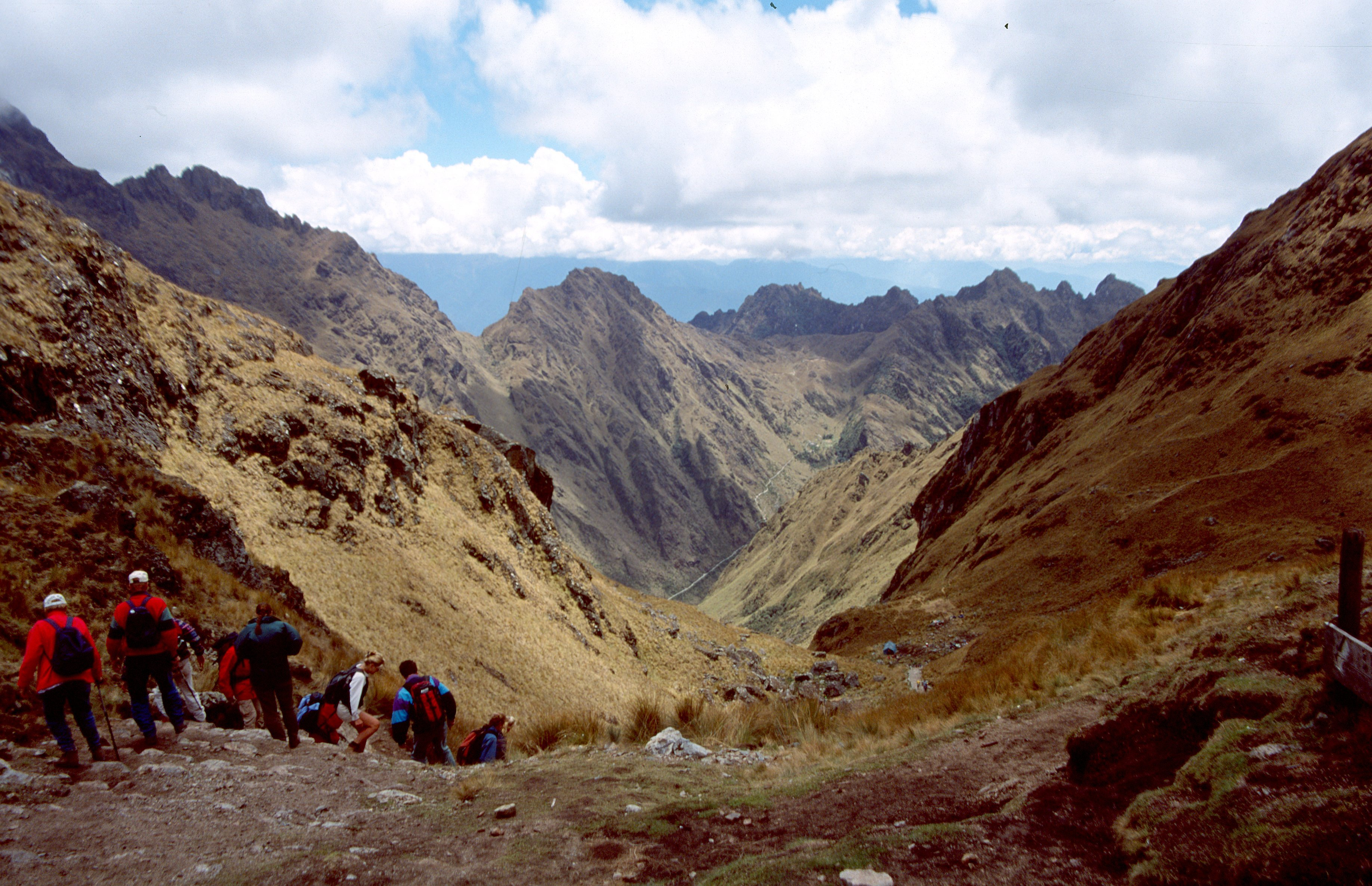 Inca trail from Cusco to Machu Picchu in Perú. Day 2. Descent from Warmiwanusca or Dead Woman's Pass, which, at 4,200 m above sea level, is the highest point on the trail.